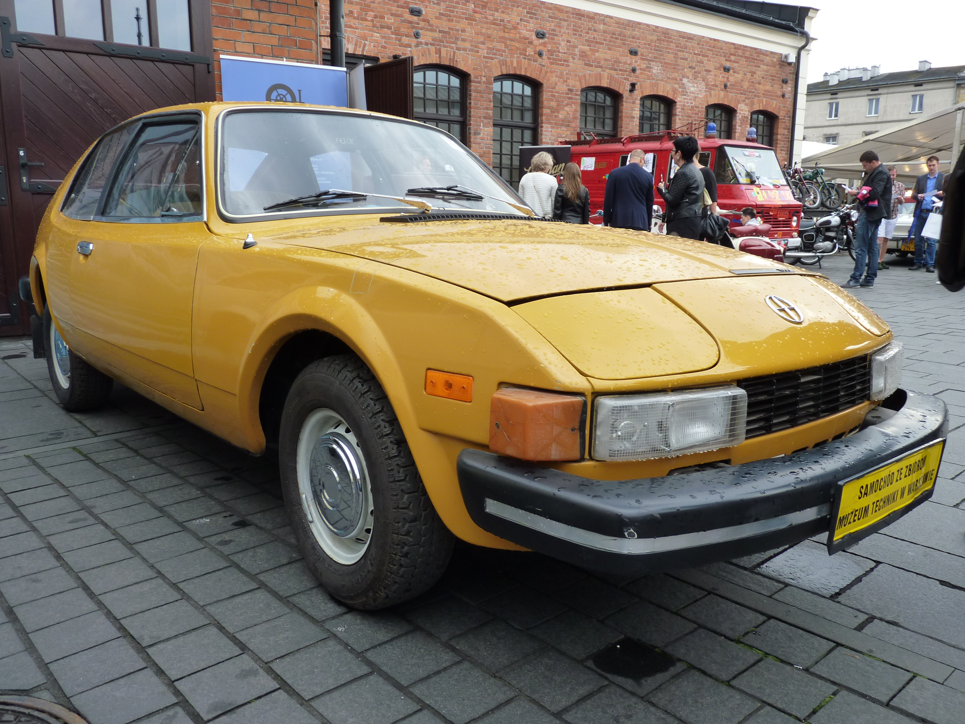 Classic Moto Show 2015 in Kraków.